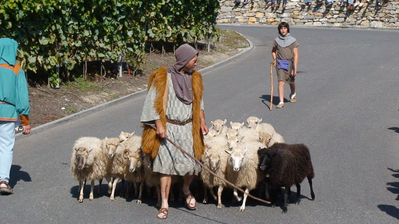 Shepherding enactment in Switzerland. One of the sheep is black.